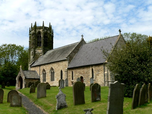 All Saint's Church, Sancton in the East Riding of Yorkshire, England.All Saints Church has an unusual 15th century octagonal tower.